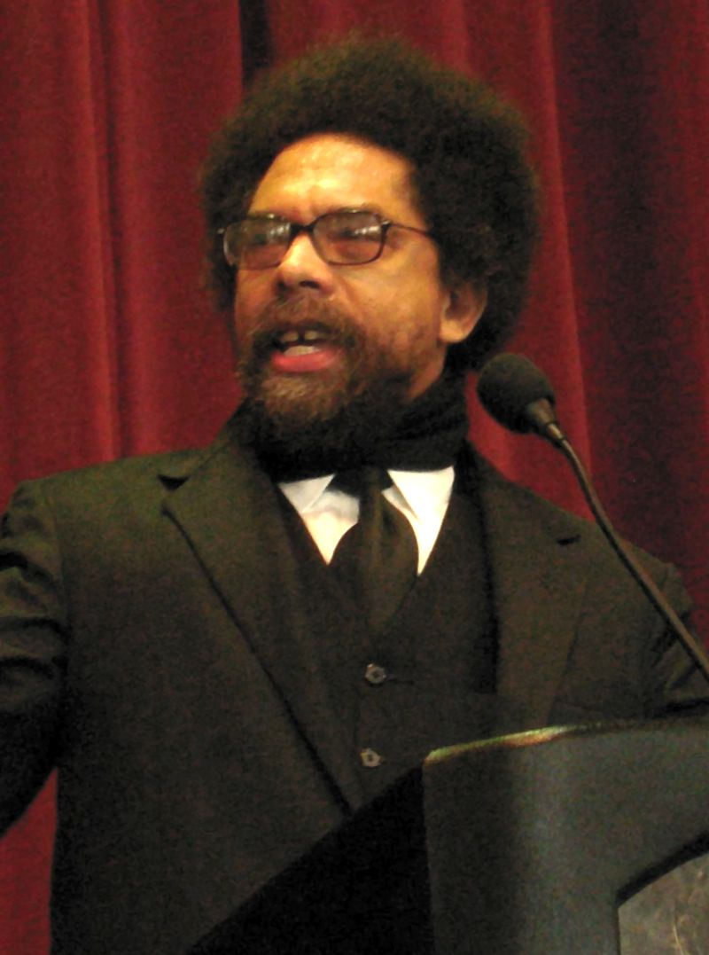 Cornel West, keynote speaker at the Martin Luther King Jr. Week. University of Utah. Contrast enhanced, sensor noise filtered, saturation adjusted